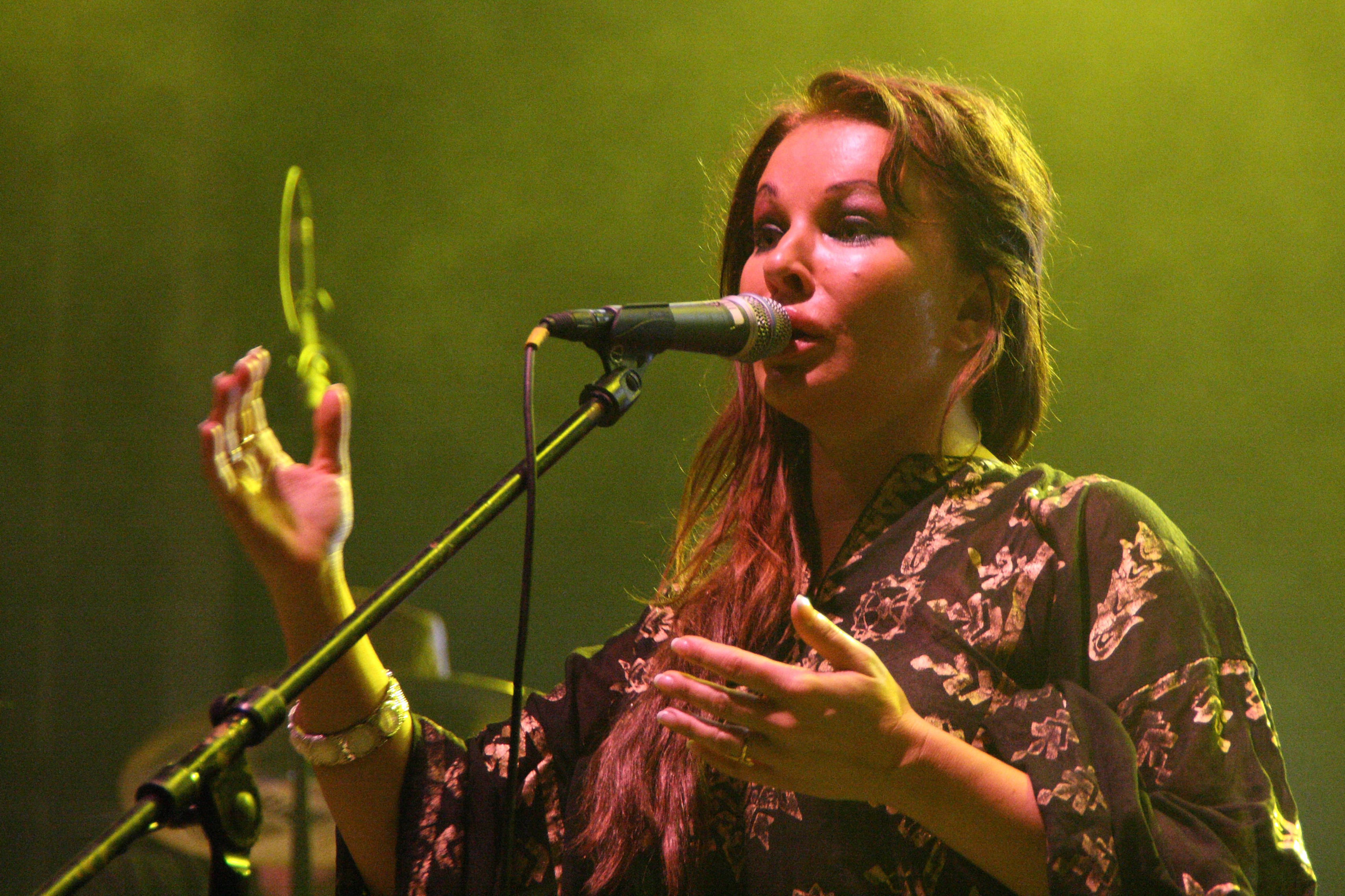 Natacha Atlas in concert with Transglobal Underground at TFF.Rudolstdt